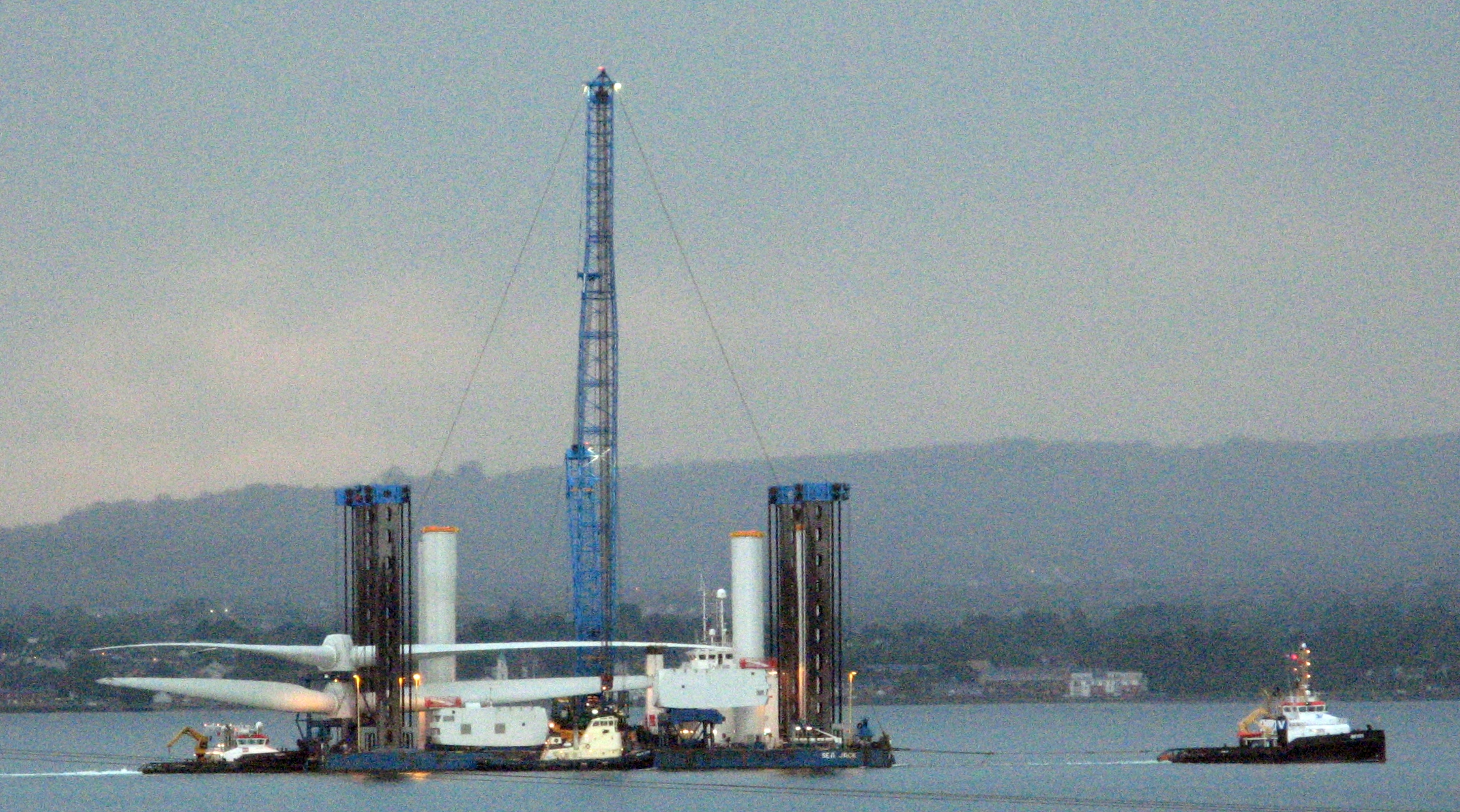 The SeaJack, a wind turbine installation vessel, travels down Belfast Lough on 30 May 2011 en route from Harland and Wolff to the Ormonde Wind Farm